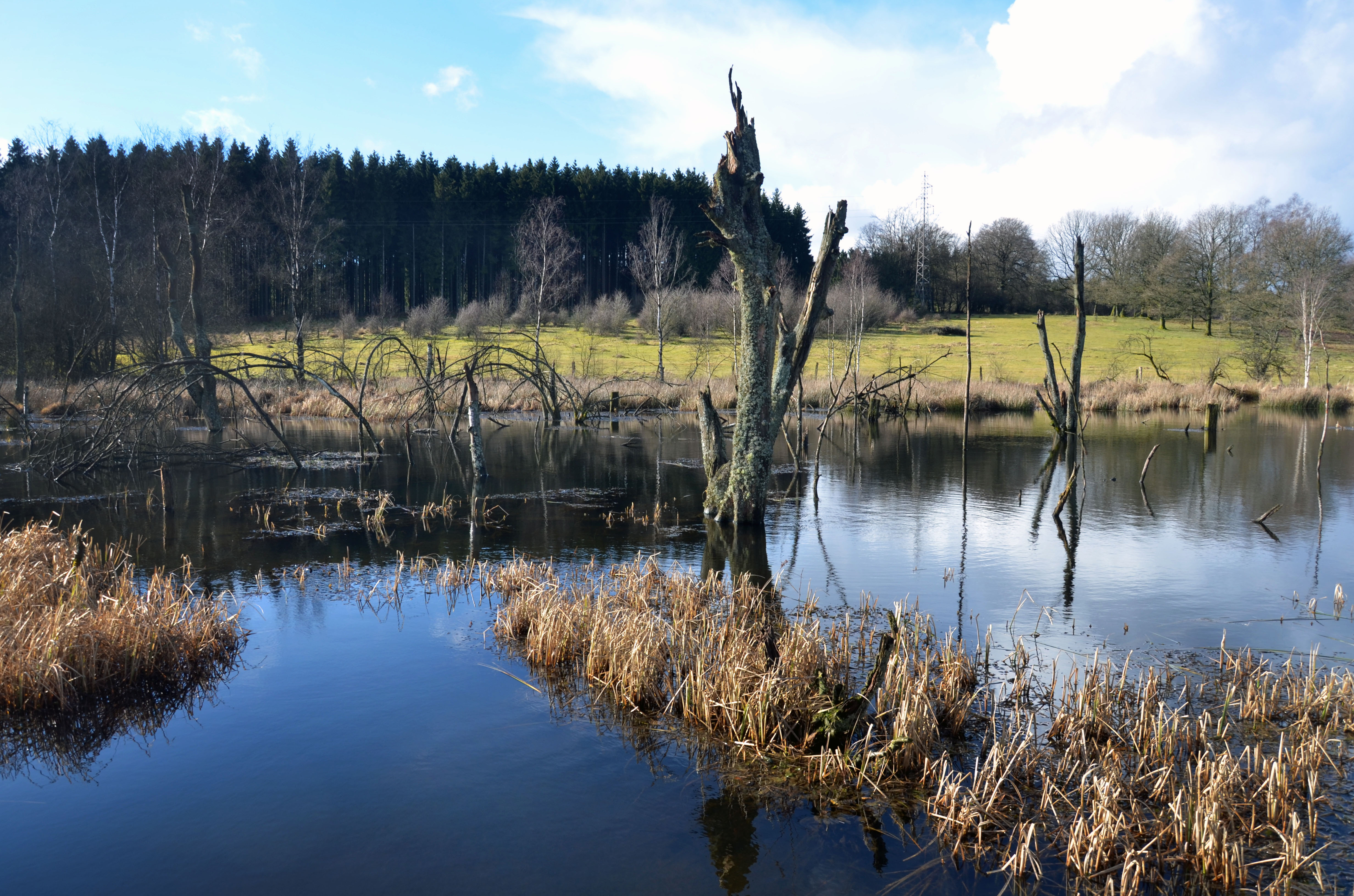 Water reservoir created by the Castor fiber through a dam in the French Ardennes, in a wetland Blue molinies ( Molinia caerulea, willows and birches.